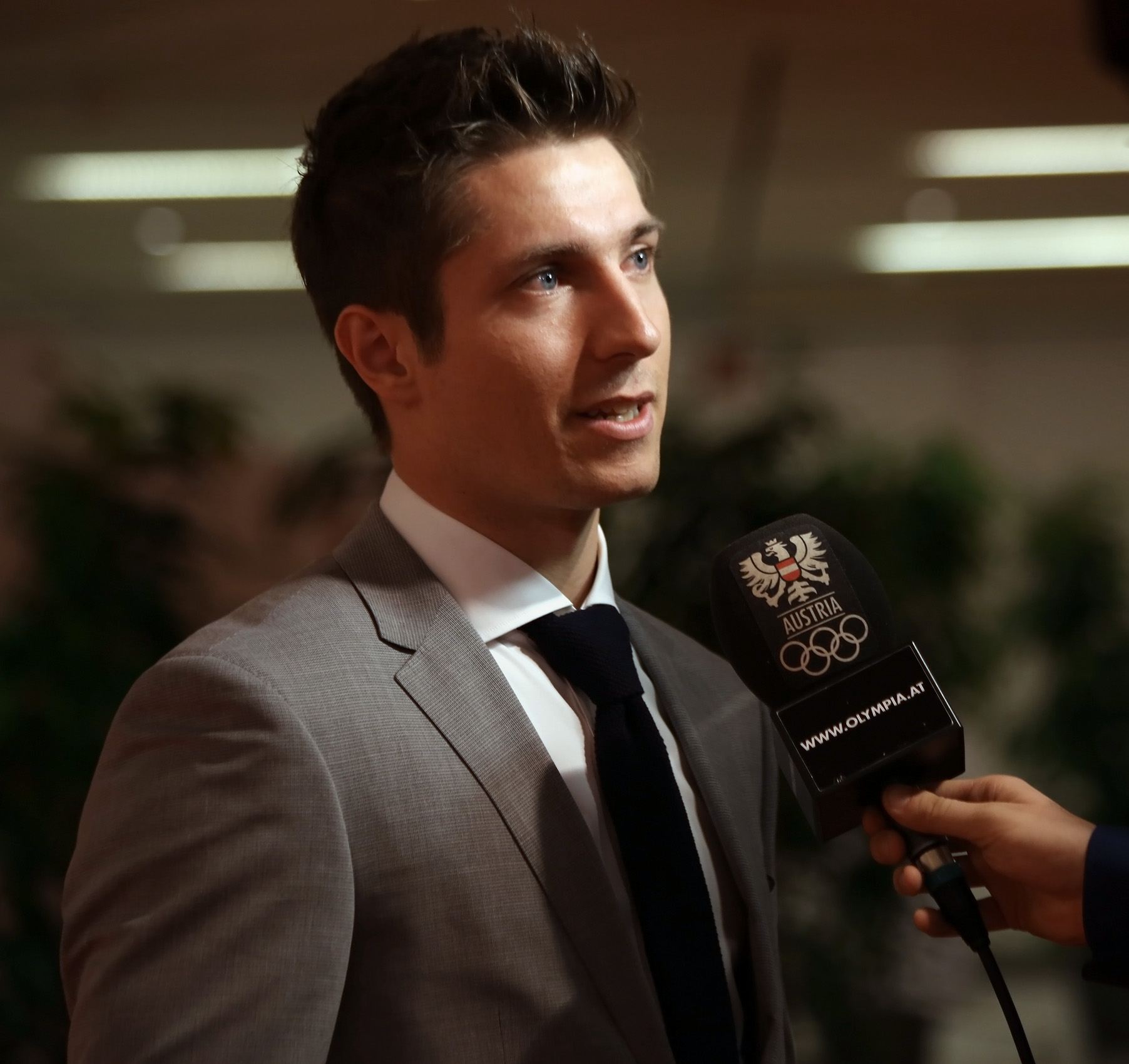 Marcel Hirscher at the award show for the Austrian Sportspersonalities of the year 2013 at Austria Center Vienna (Vienna, Austria).